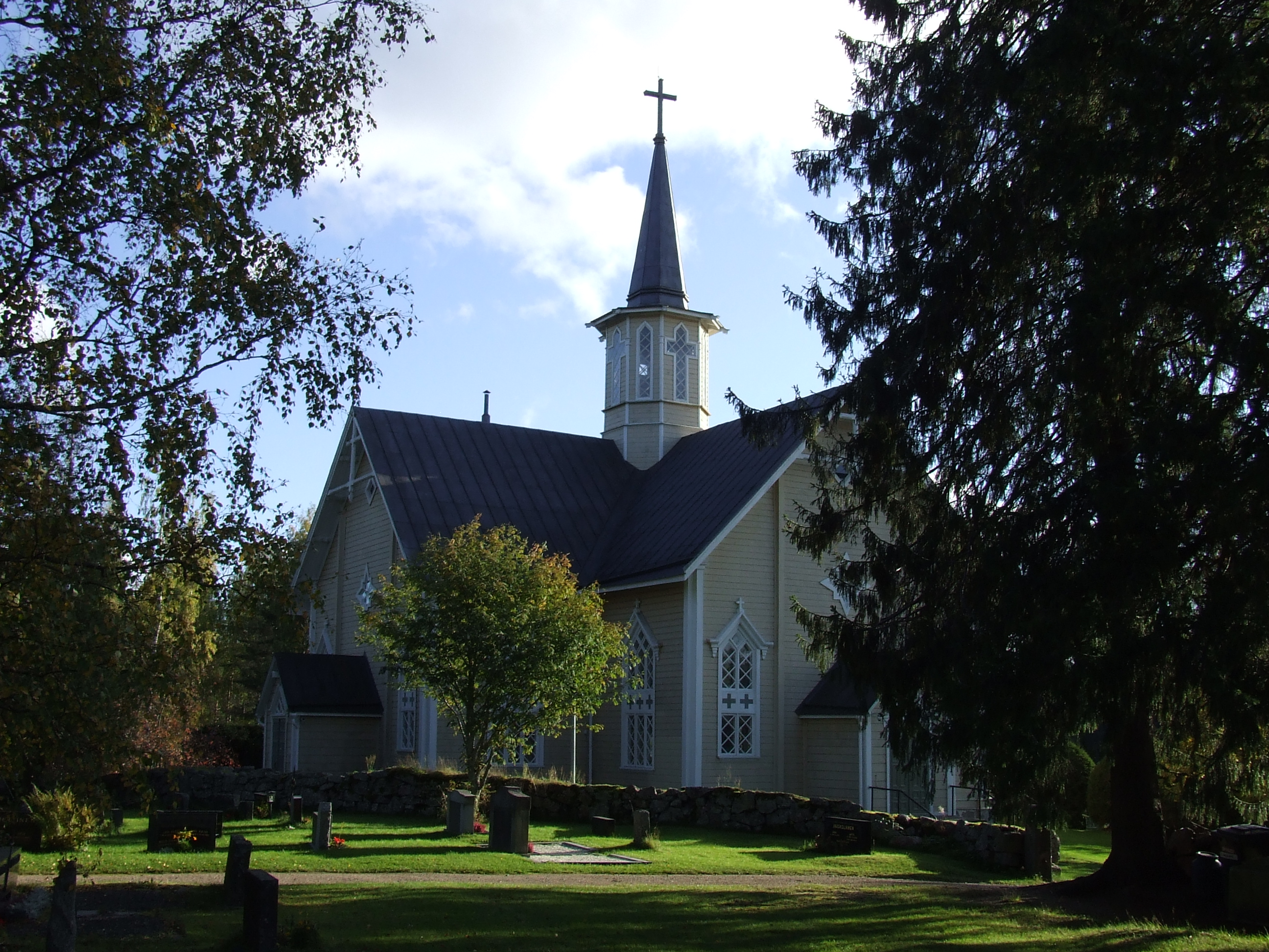 Church of Suomenniemi in Finland.